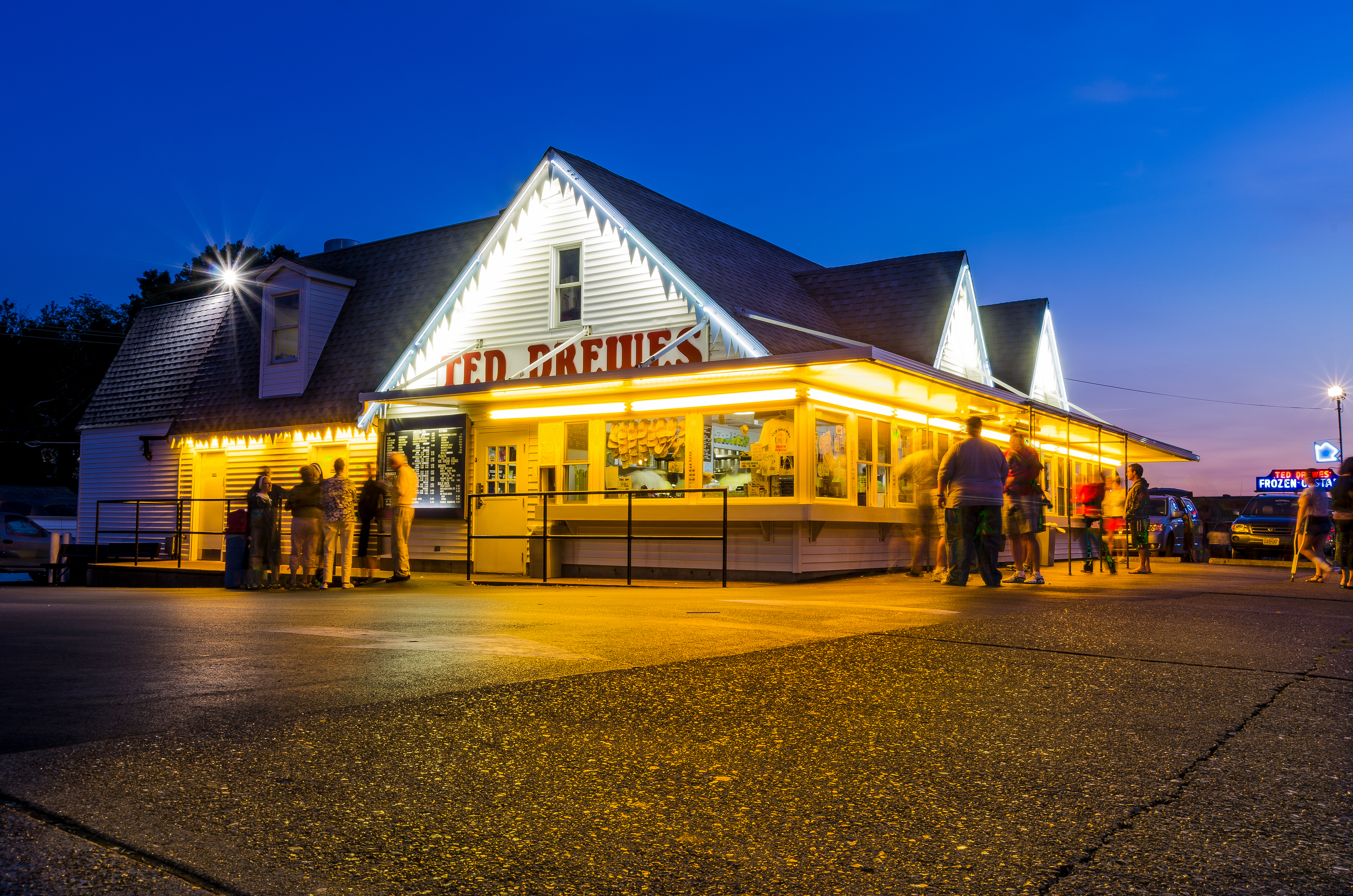 Ted Drewes Frozen Custard at 6726 Chippewa, on the historic Route 66, is a St. Louis landmark serving incredibly delicious desserts.